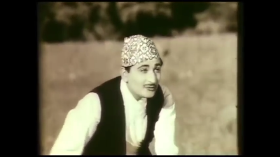 Screenshot of Maitighar (1966) Nepali Movie; Nepali actor Chidambar Prasad Lohani (aka CP Lohani) in the song "Namana Laaj Yestari" in full traditional Pahadi folk dress, 2nd Movie of Nepal